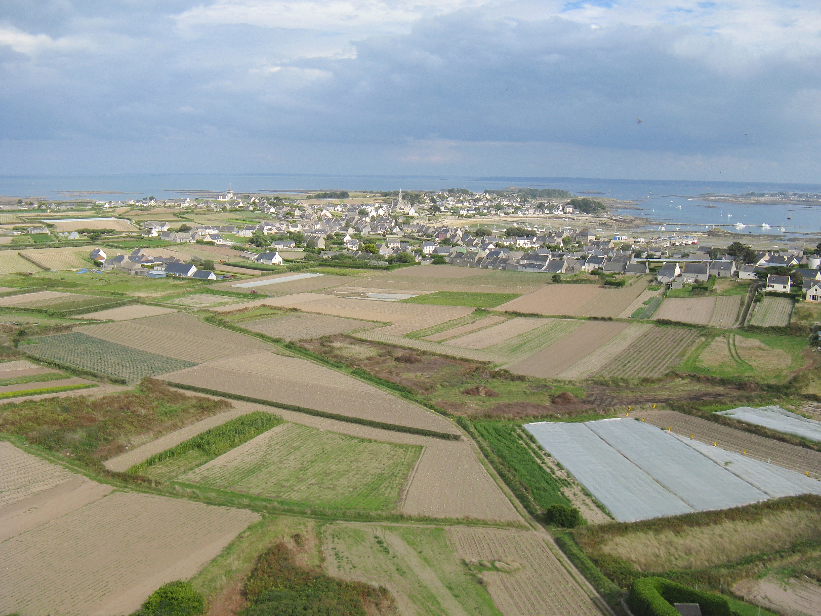 General overview of the Batz island from the top of the lighthouse